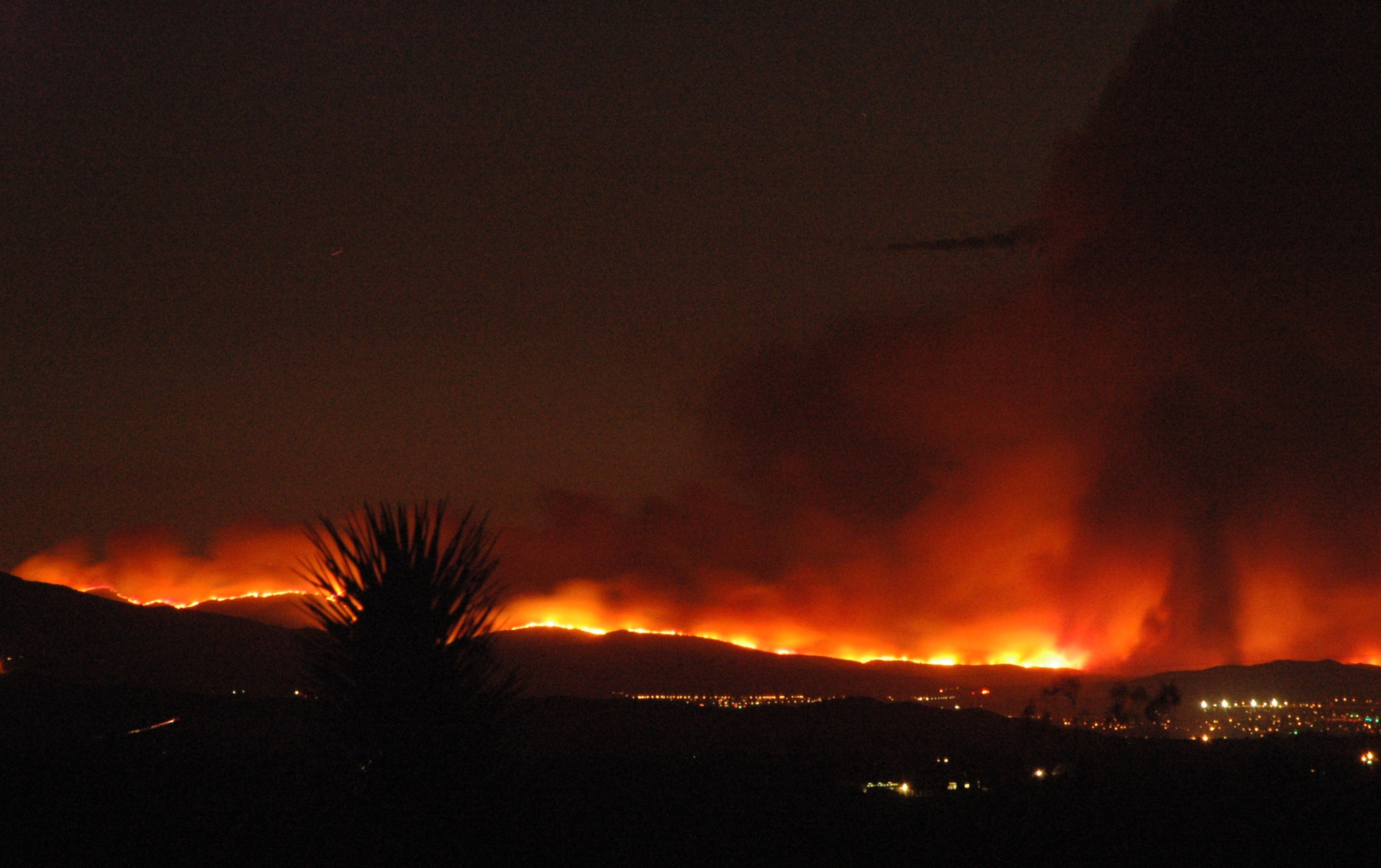 29 July 2010. The Crown Fire near Palmdale, CA. Taken from 25 miles away in Llano, CA.